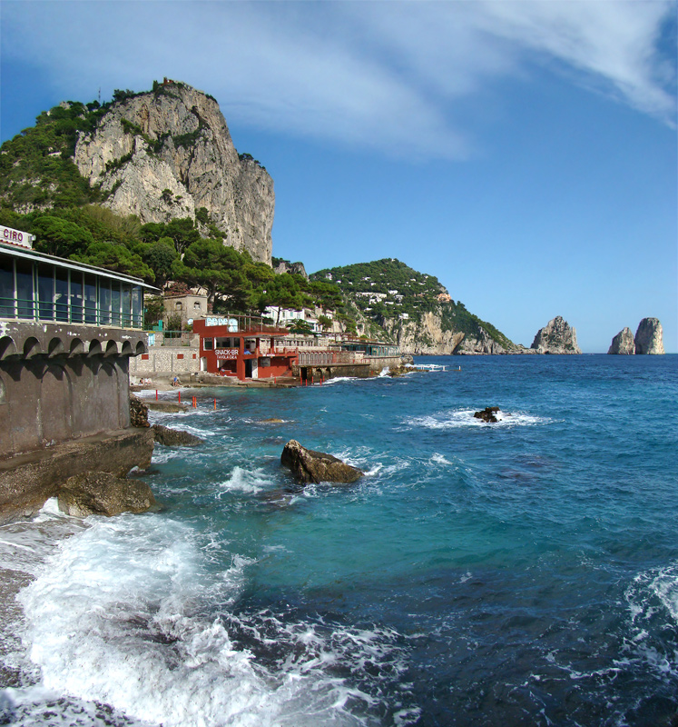 Marina Piccola, Capri, Campania, Italy.